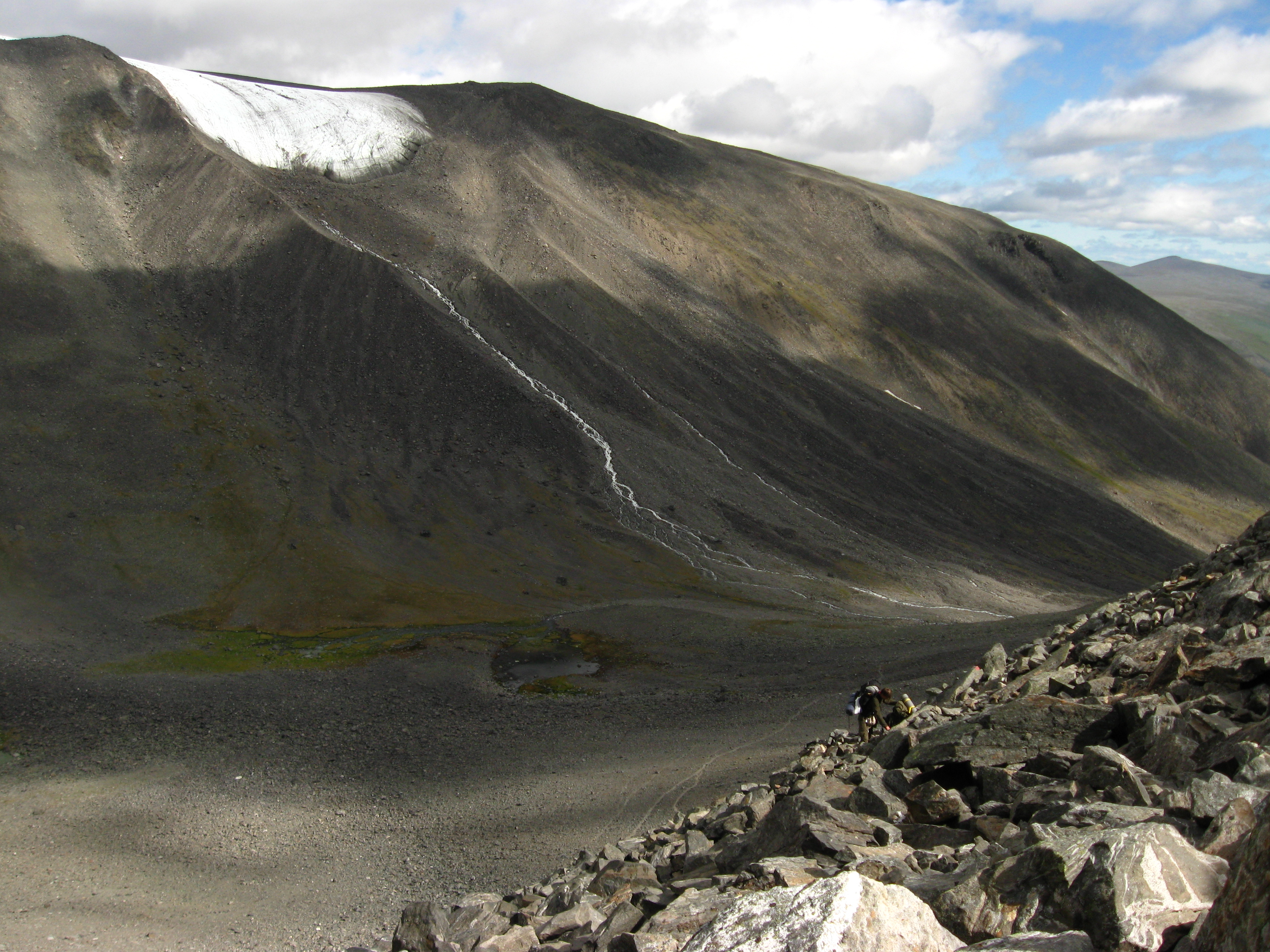 Exposed (YDS 2-3 scrambling) parts of Västra Leden trail in Kebnekaise area